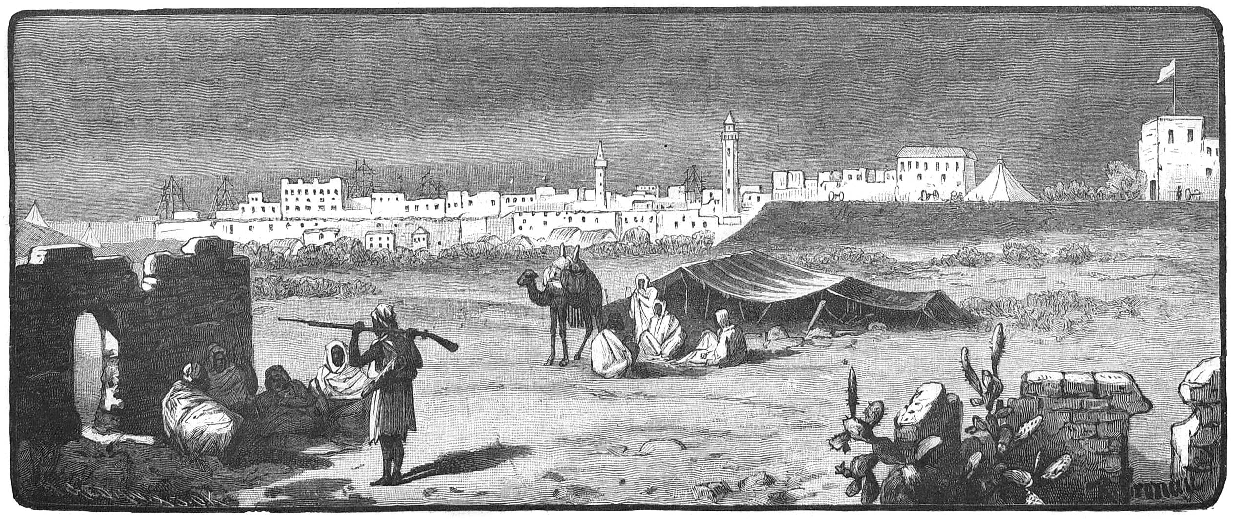 caption: "Suakin von der Landseite. Originalzeichnung von R. Cronau."